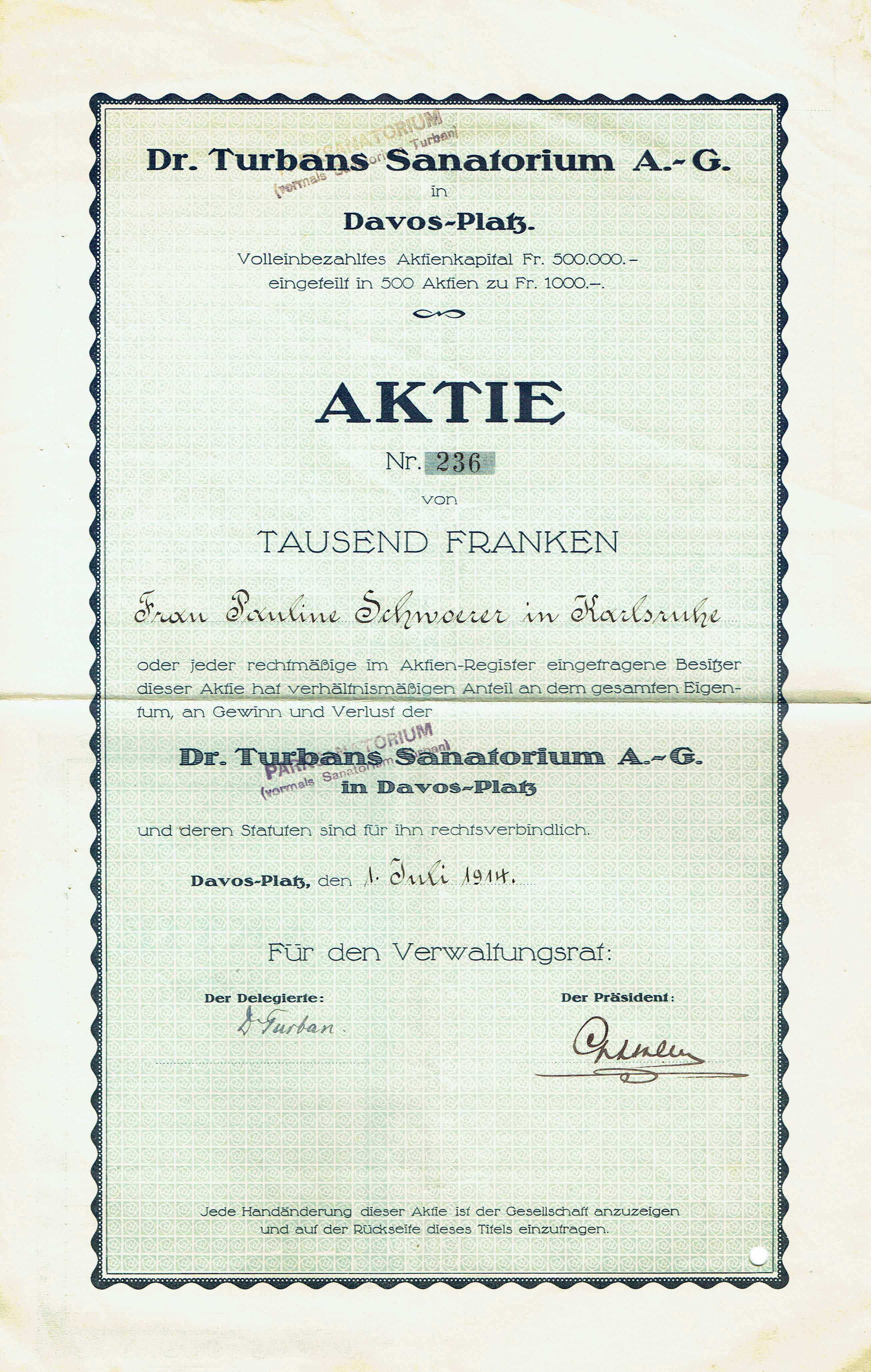 Share of the Dr. Turbans Sanatorium AG, issued 1. July 1914